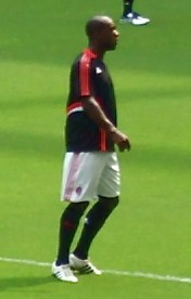 Clarence Seedorf